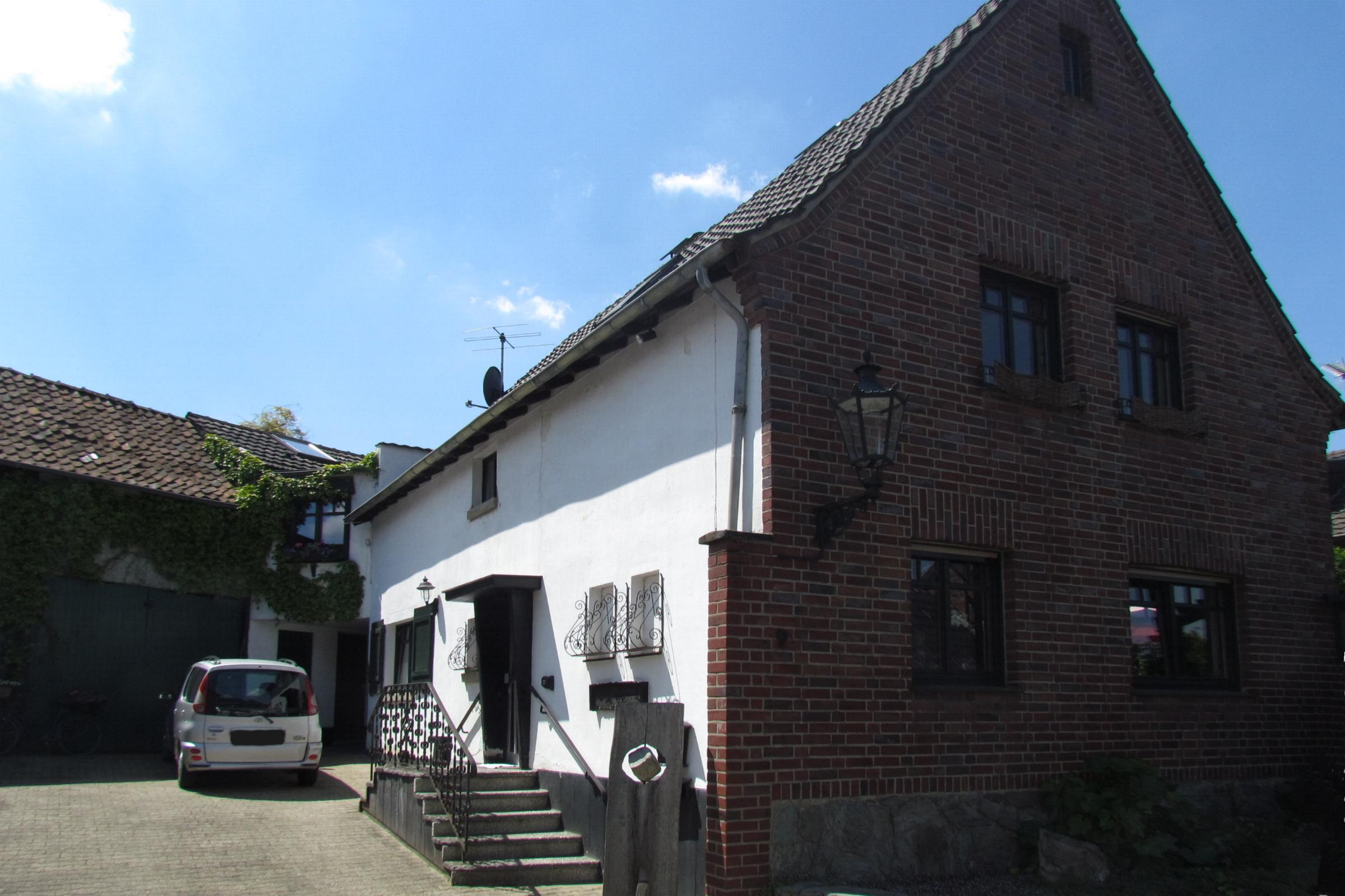 This is a photograph of an architectural monument.It is on the list of cultural monuments of Korschenbroich